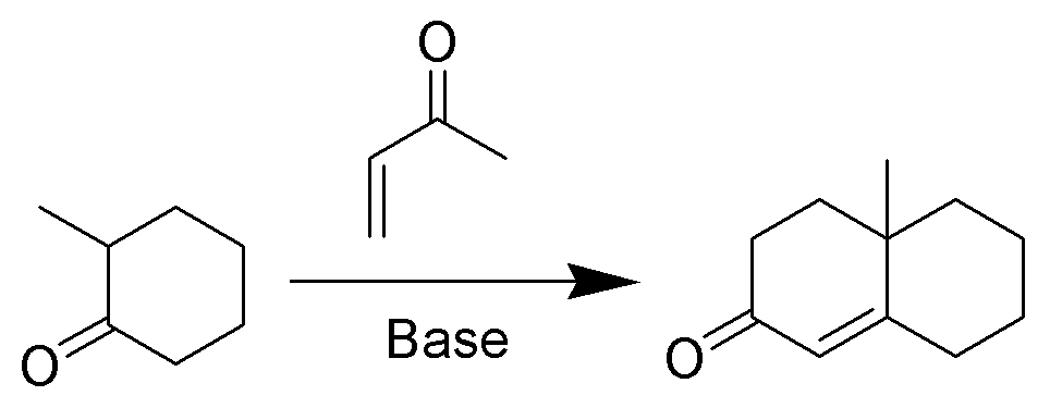 Description: The Robinson annulation. Author, date of creation: selfmade by ~K, 16 September 2005. Source: - Copyright: Public domain. (PD) Comments: high-resolution b/w PNG; ChemDraw / The GIMP.